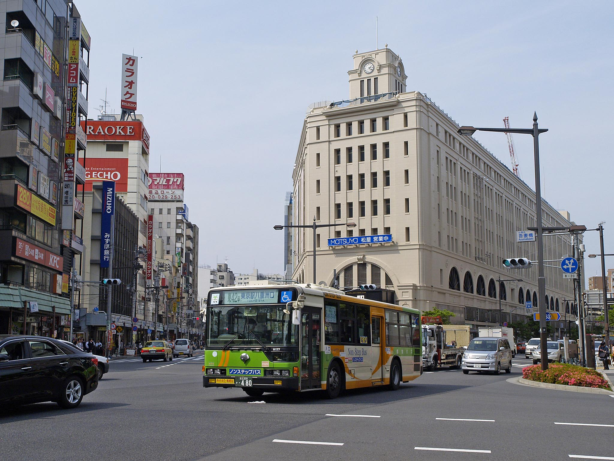 Toei Bus "Higashi 42 Kou" route, depart from Tobu Asakusa Station. Model: Mitsubishi Fuso Aero Star KL-MP37JK License plate: TKA200 KA-480